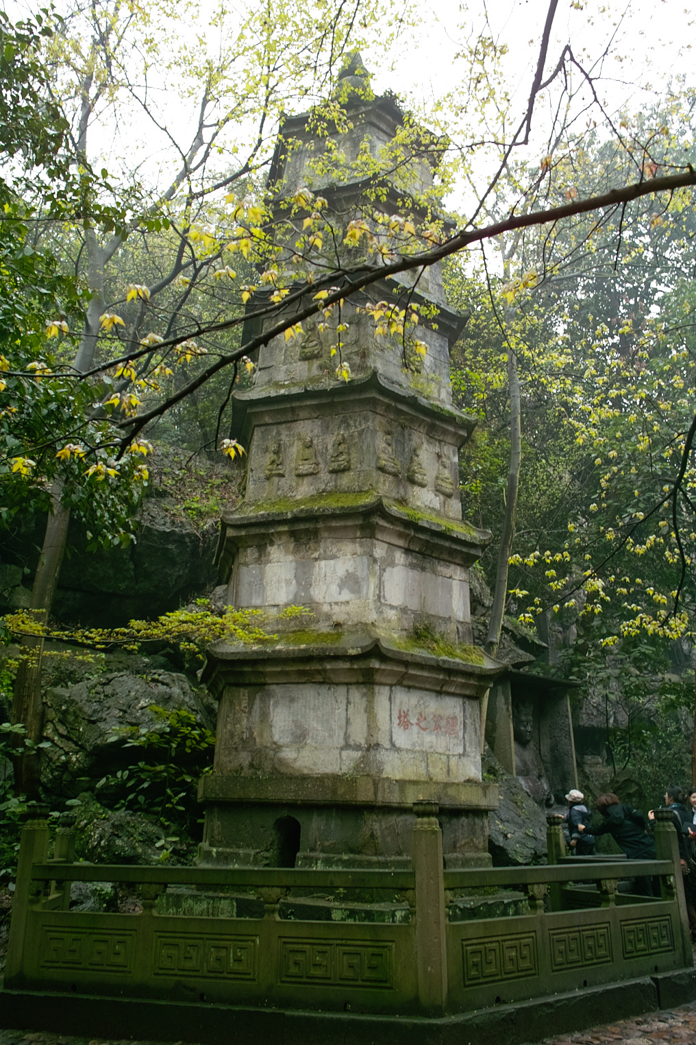 Ligong Pagoda at Lingyin Temple, Hangzhou,China